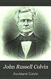 Cover of his biography written by his son, Sir Auckland Colvin KCSI KCMG CIE (1838–1908)